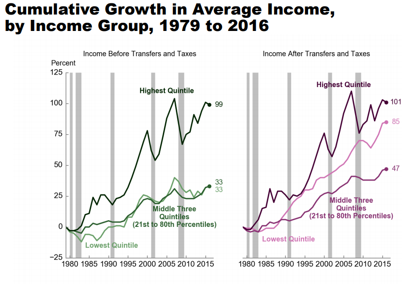 Growth in income by quintile in the United States over time, from 1979 to 2016, before and after taxes and transfers